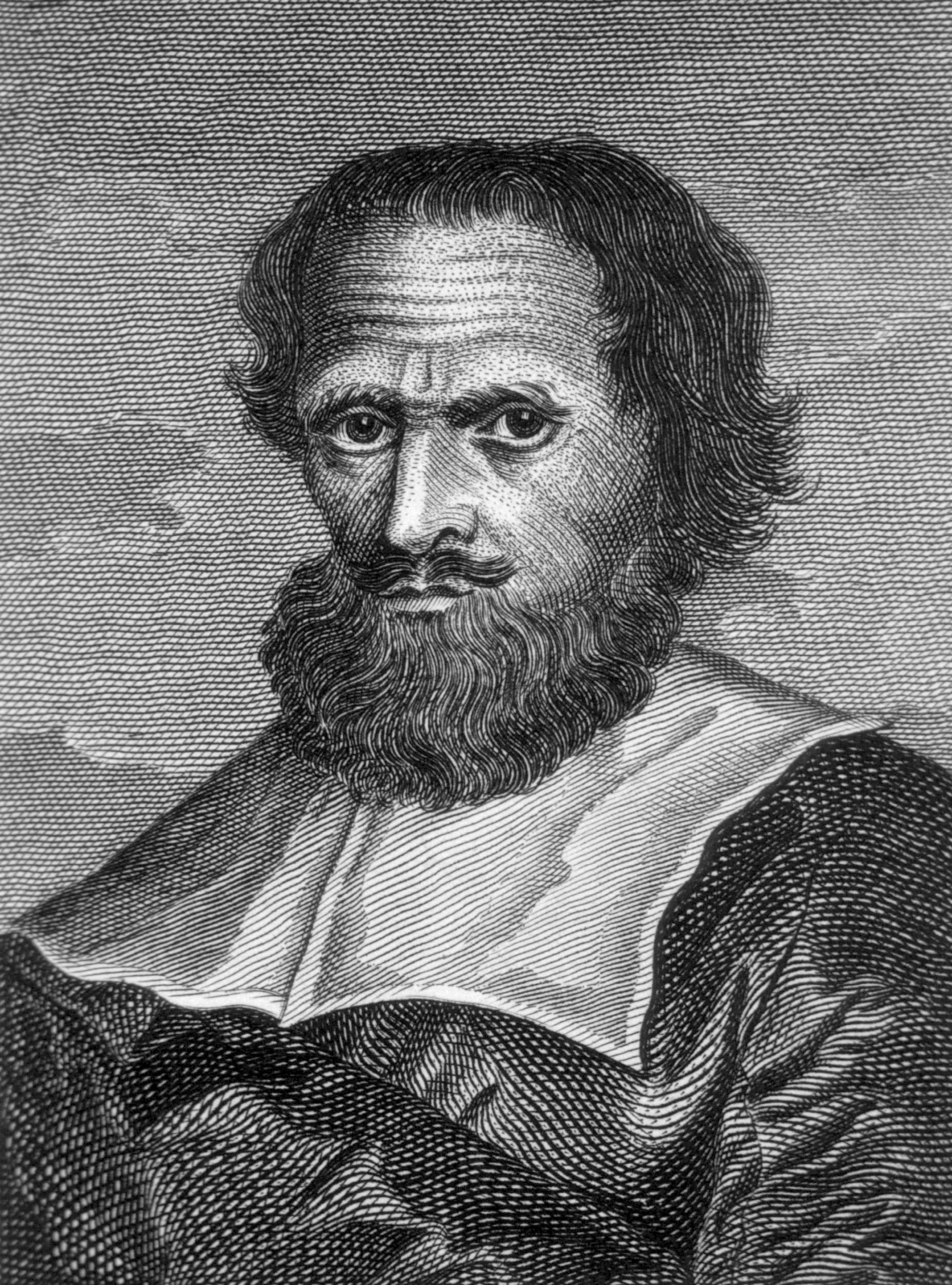 Engraving of Simon Forman c. 1611.